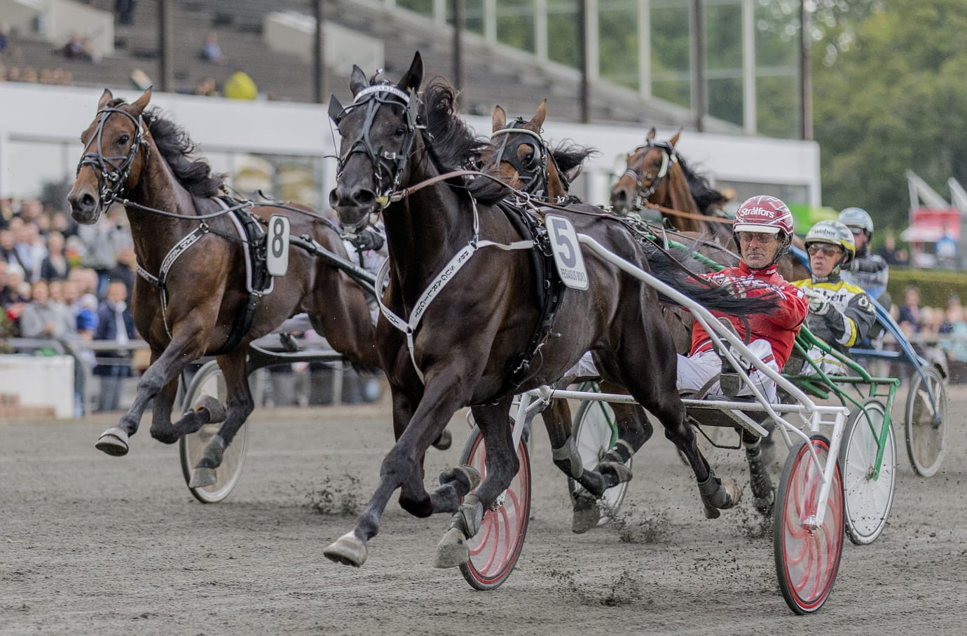 Trotter B.B.S.Sugarlight and driver Peter Untersteiner.